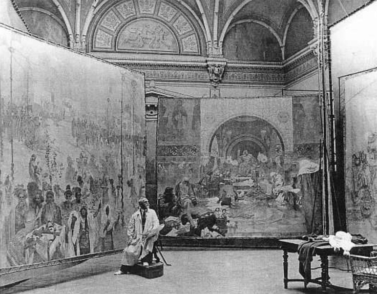 Czech painter Alfons Mucha at work with Slavs Epopee serie